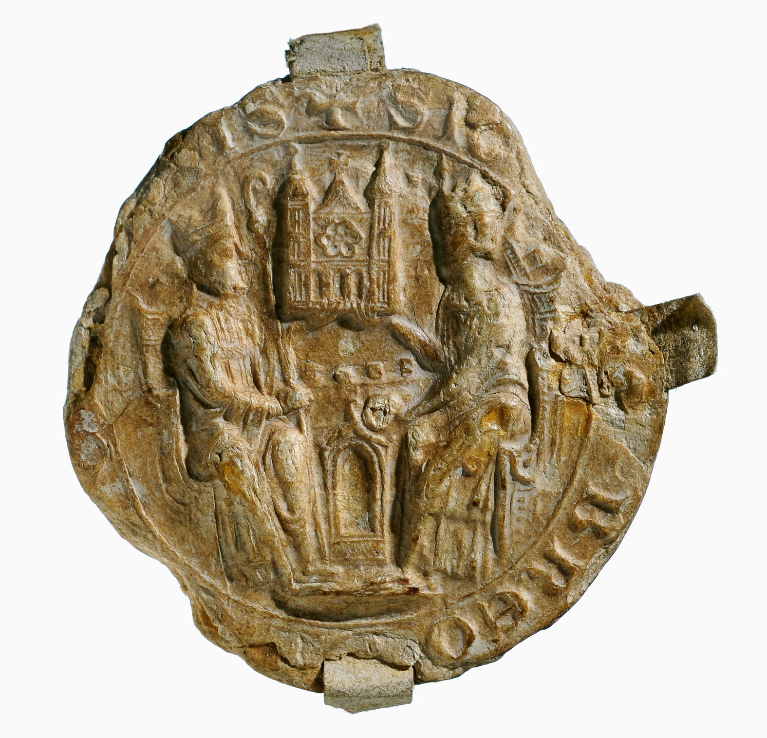 Seal of the city of Bremen as used from 1230 to 1365. The subject, Charlemagne and bishop Wilhad with the cathedral between them, serves the oldest depiction of Bremen Cathedral. Below, i.e. in front of the cathedral, there is a town wall with pinnacles and an open bar.